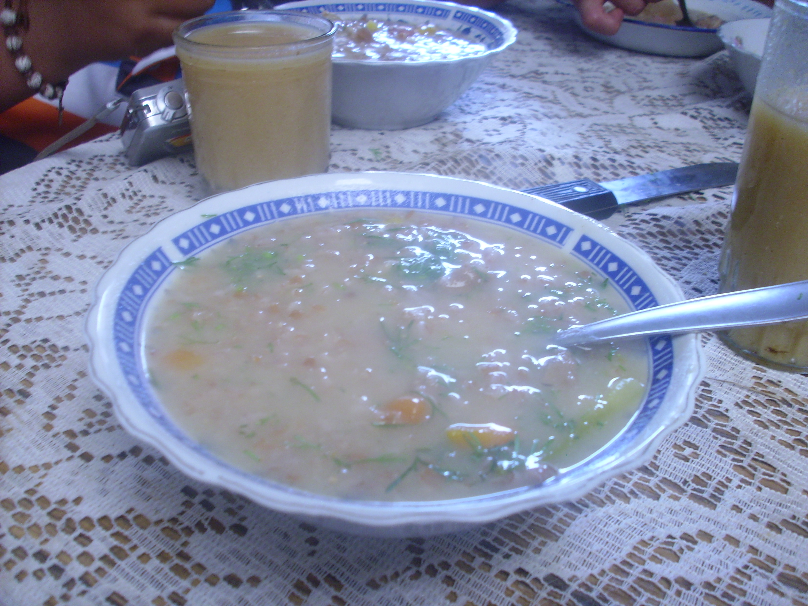 Plato típico, cuchuco de trigo Sogamoso,Colombia